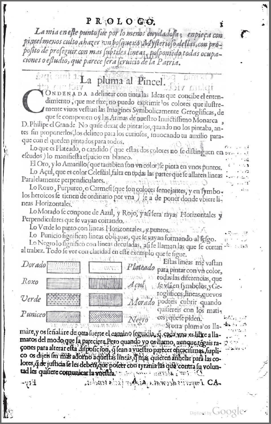 The hatching table of Caramuel Lobkowitz